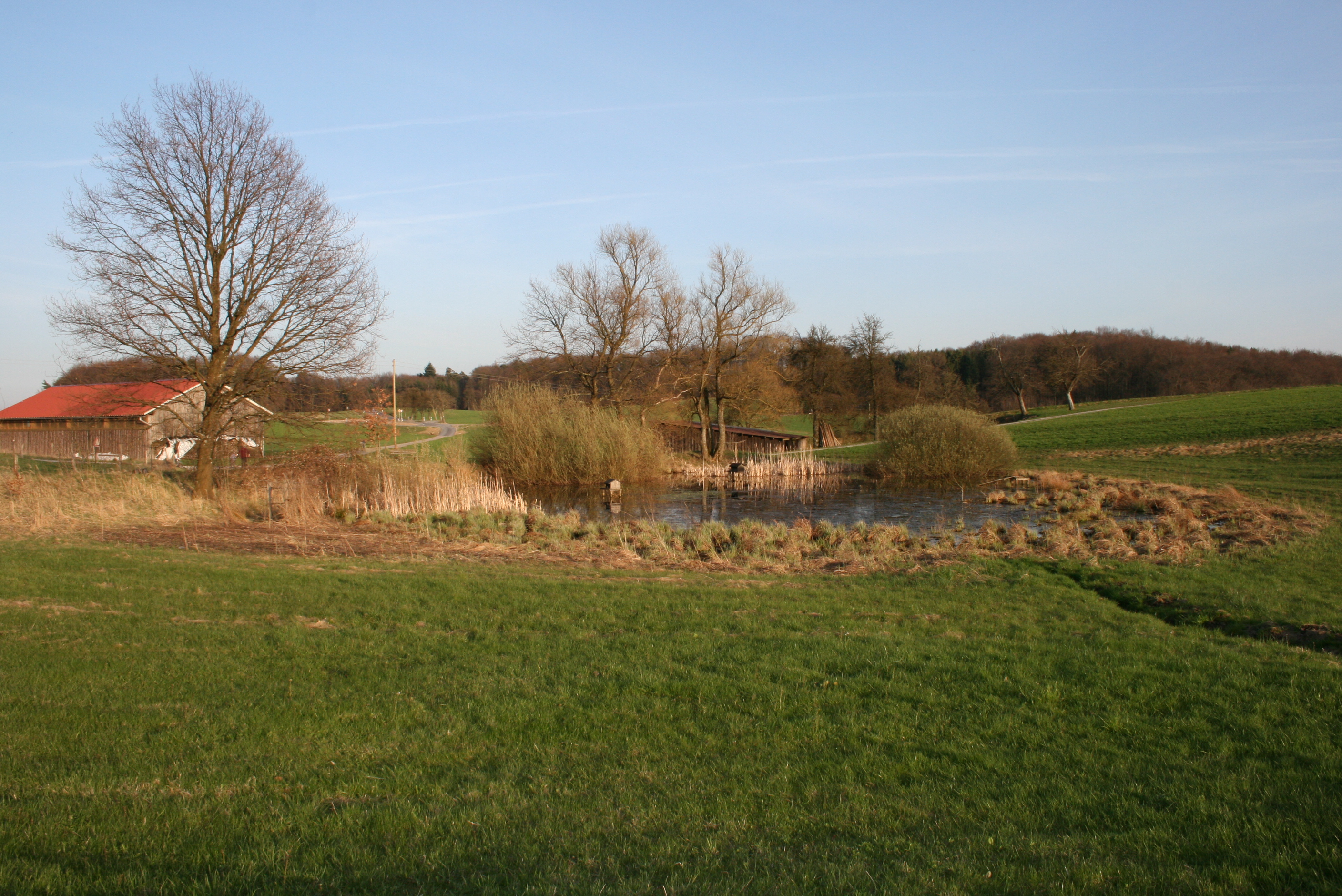 The old Gleichener sea in Obergleichen